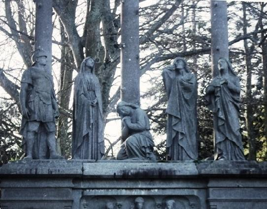 Calvary in Treguier